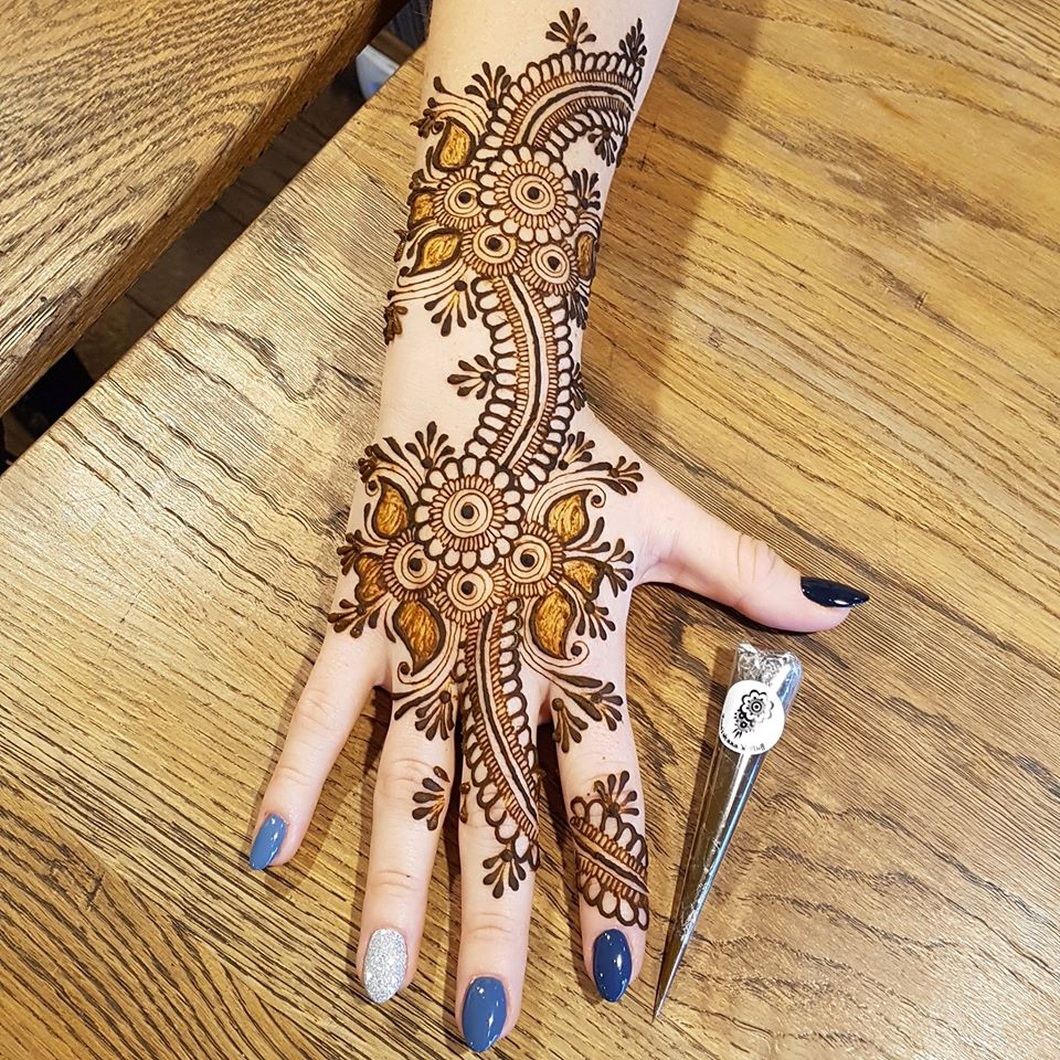 The photo presents henna design and a henna cone which is used to apply mehndi.